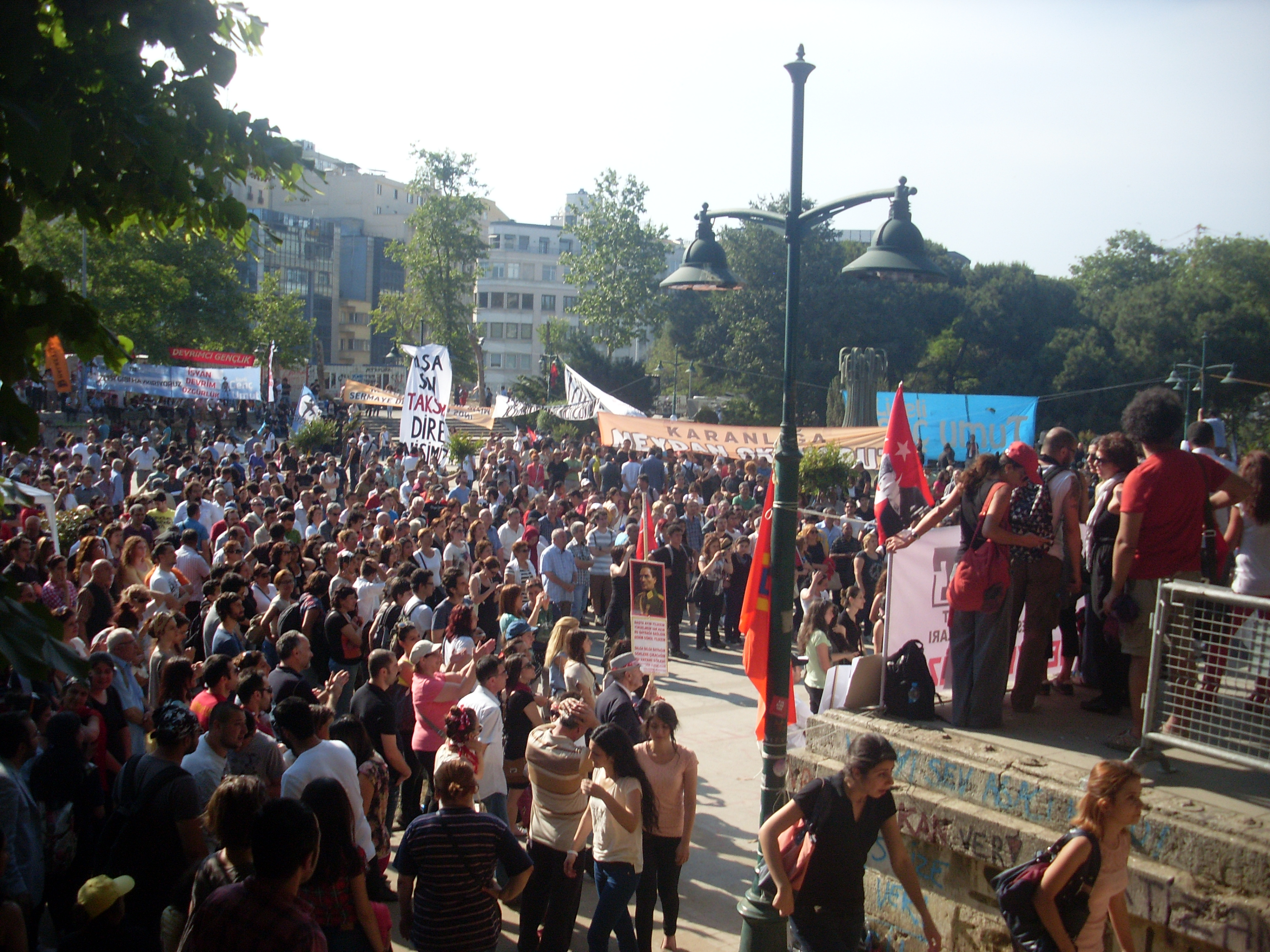 2013 Taksim Gezi Park protests, a view from Taksim Gezi Park on 4th June 2013 3